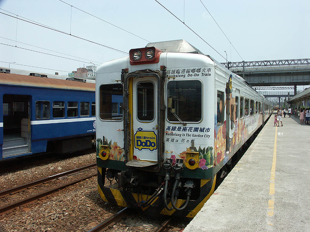 Taiwan Railway Administration Dodo-train.